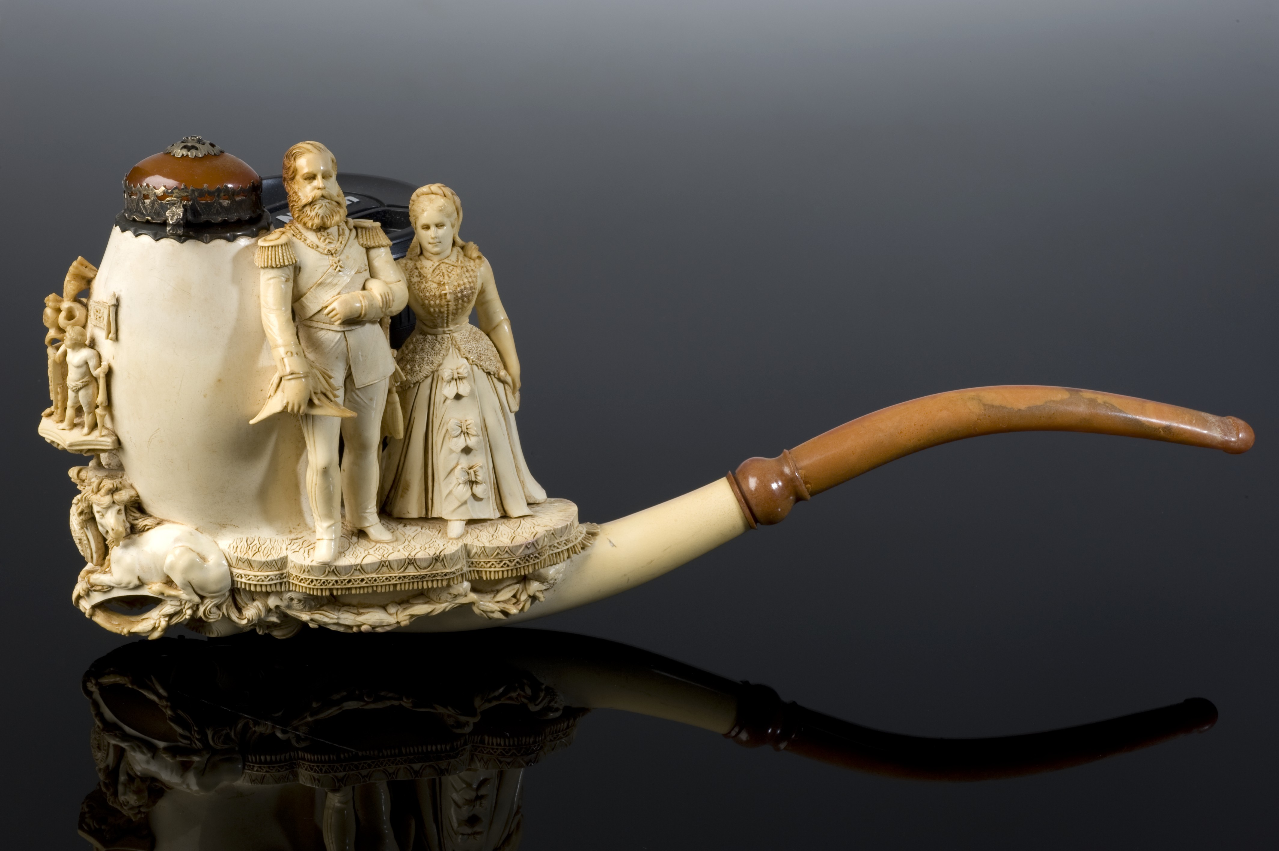 Meerschaum pipe with case, bowl carved with figures of Frederick (Emperor of Germany 1888) and his Consort, 1880-1890, Austria or England. Wellcome Images